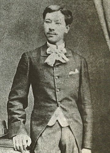 Young Pedro Paterno